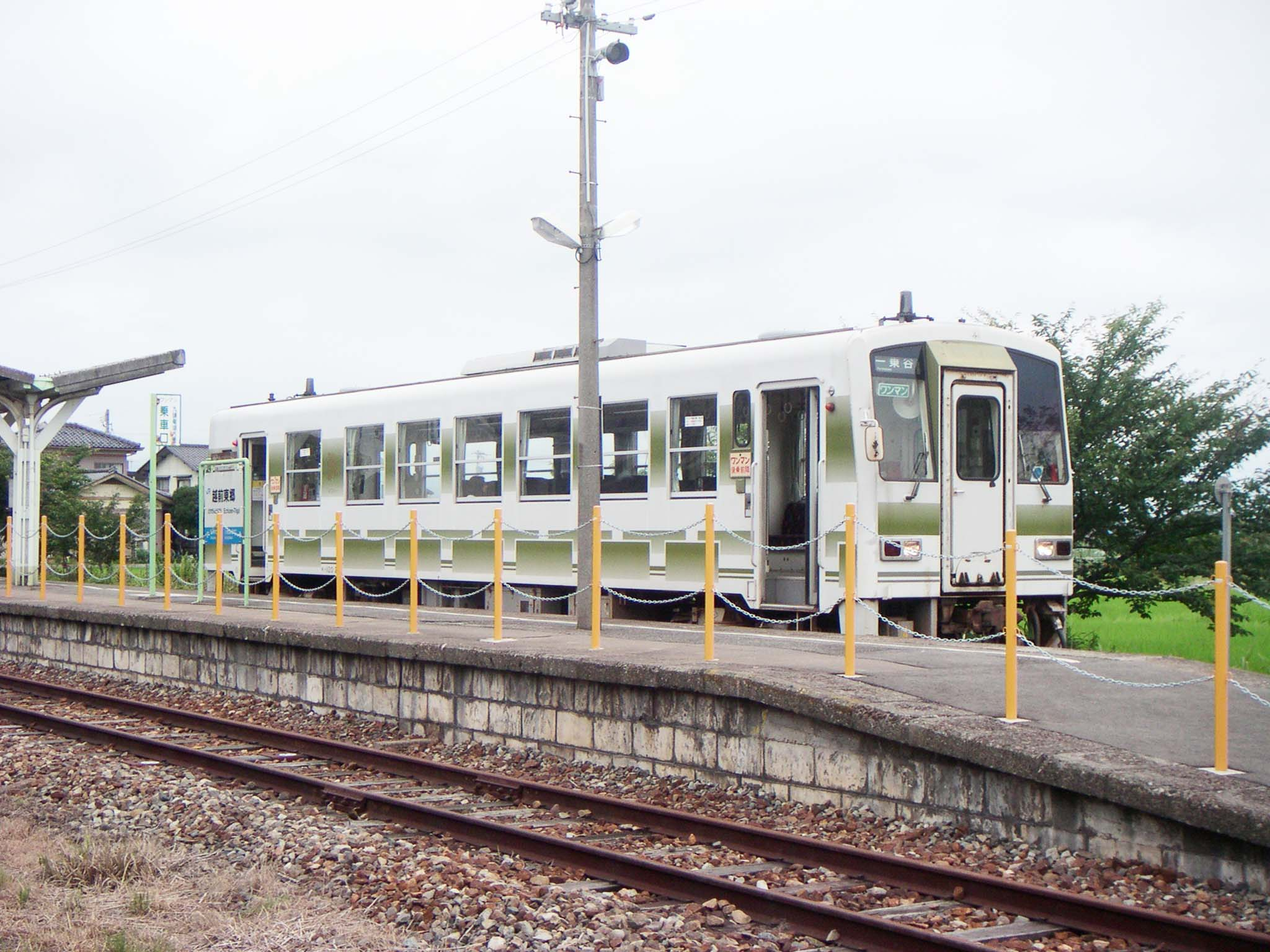 West Japan Railway Company Etsumi-Hoku Line, Echizen-Tōgō Station platform